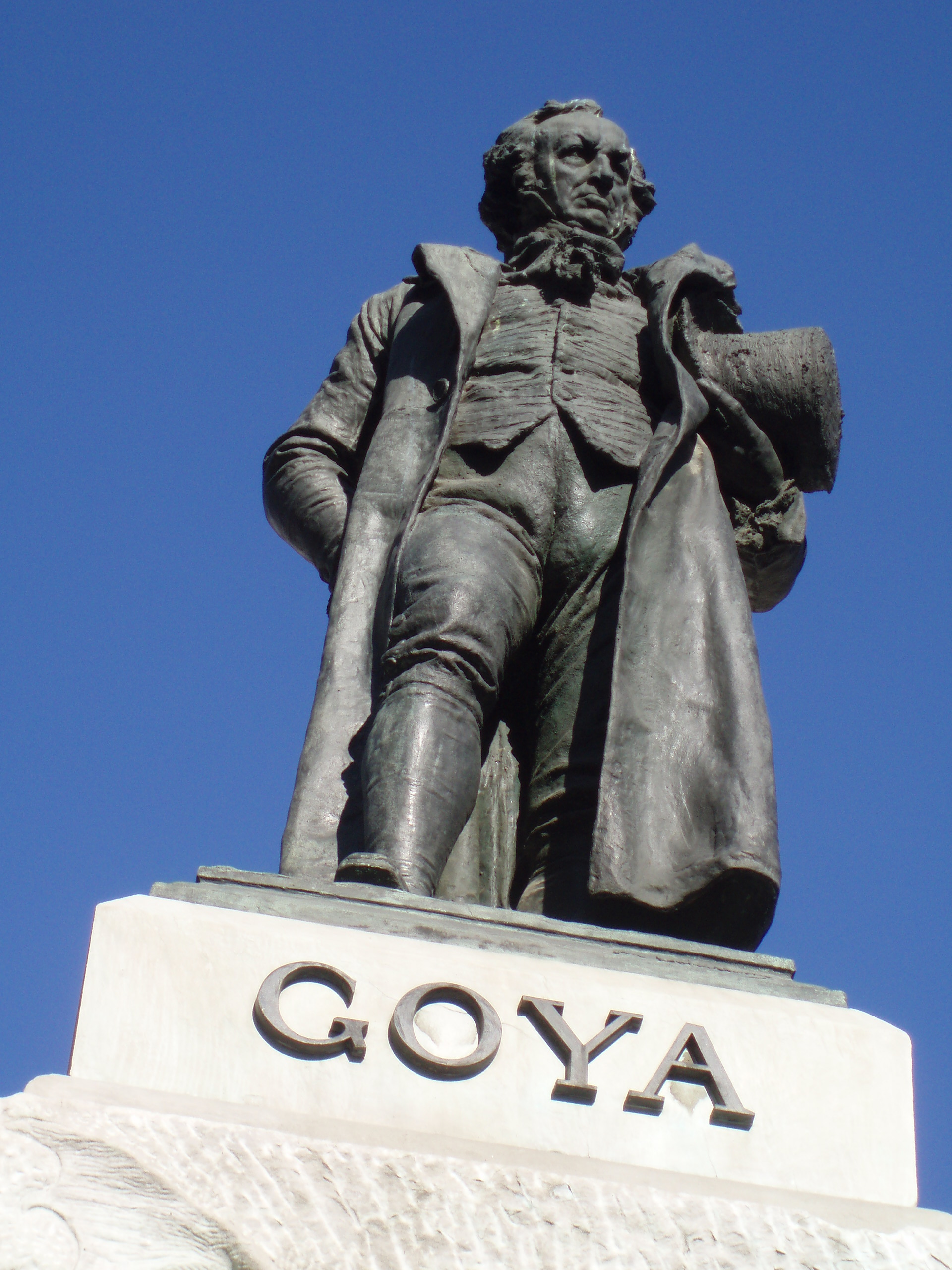 Partial view of the monument to Goya beside the Prado Museum in Madrid (Spain). Made of bronze, marble and granite by sculptor Mariano Benlliure and inaugurated in 1902.